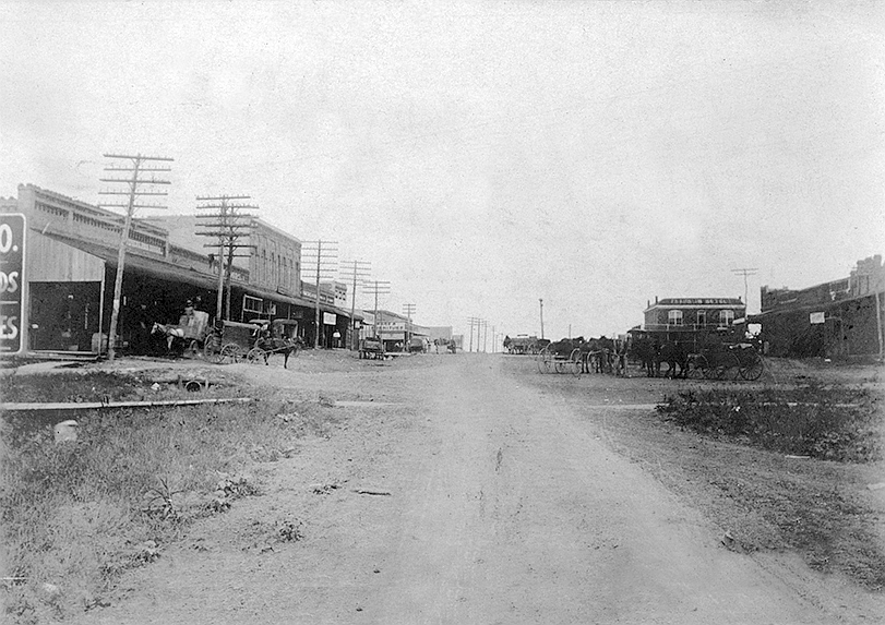 Title: Sanger Street looking east, Celeste, Texas. Creator: Unknown Date: ca. 1905-1909 Part of: George W. Cook Dallas/Texas image collection Series: Series 3: Photographs Series 3, Subseries 3, Postcards Series 3, Subseries 3d, RPPC, Texas Place: Celeste, Hunt County, Texas Description: This real photographic postcard shows horses and wagons parked near retail stores and a hotel on a street in Celeste, Texas. Physical Description: 1 photographic print (postcard): gelatin silver; 9 x 14 cm File: a2014_0020_3_3_d_0407_r_celestesanger_opt.jpg Rights: Please cite DeGolyer Library, Southern Methodist University when using this file. A high-resolution version of this file may be obtained for a fee by contacting . For more information and to view the image in high resolution, see